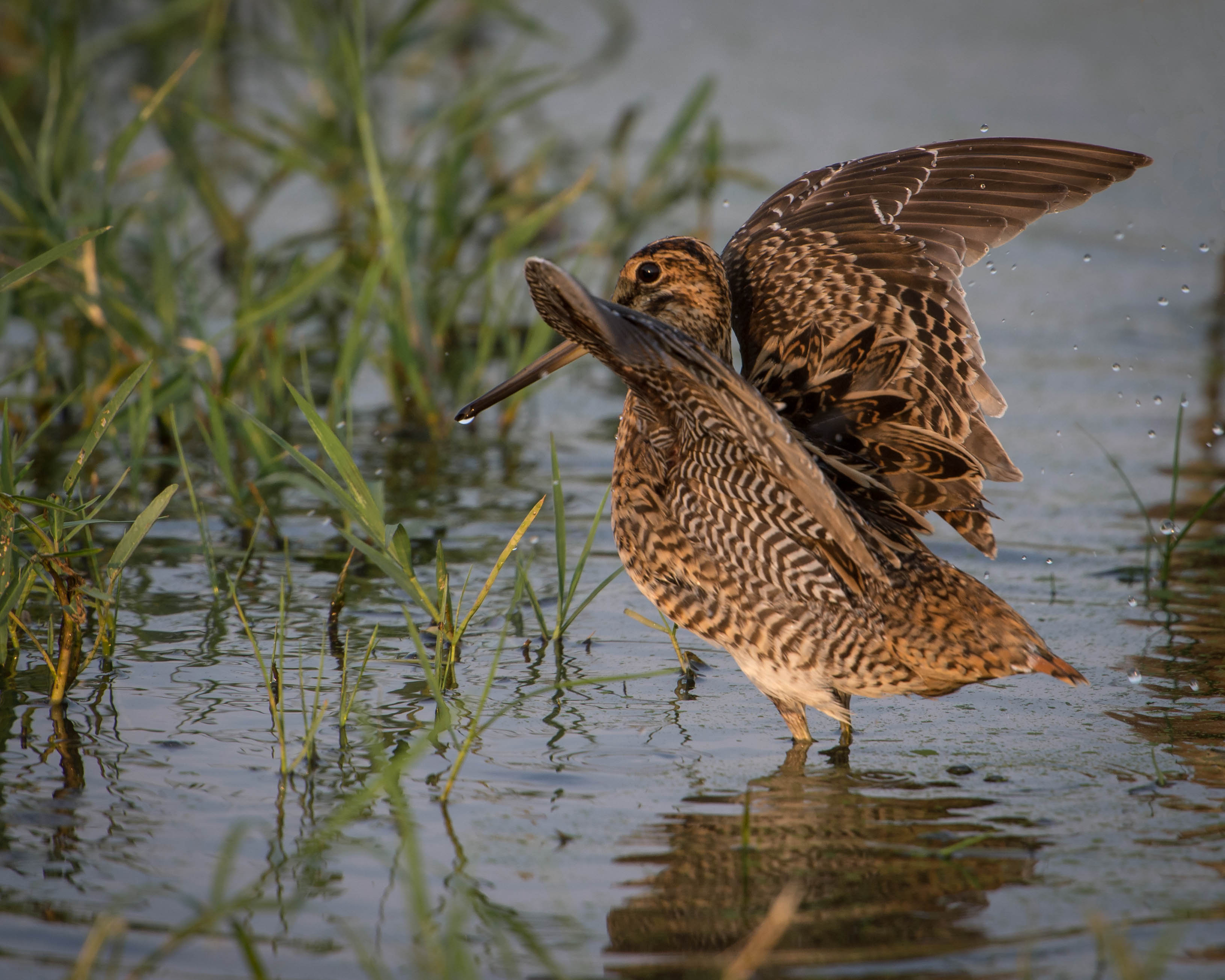 Pin-tailed Snipe (Gallinago stenura) at Laem Pak Bia, Phetchaburi, Thailand. 05 April 2013